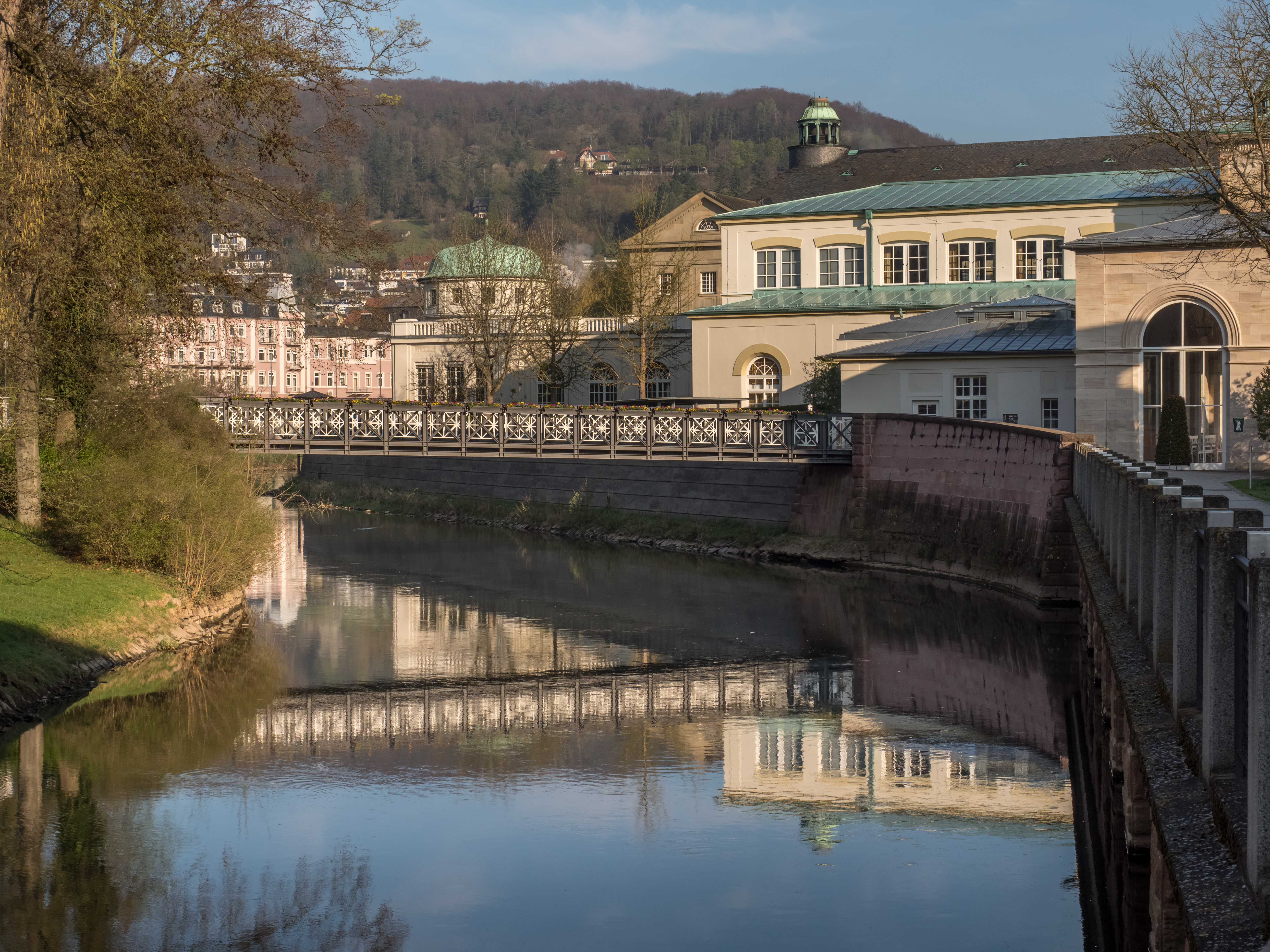 Ludwigsbrücke (Ludwig's Bridge) in Bad Kissingen